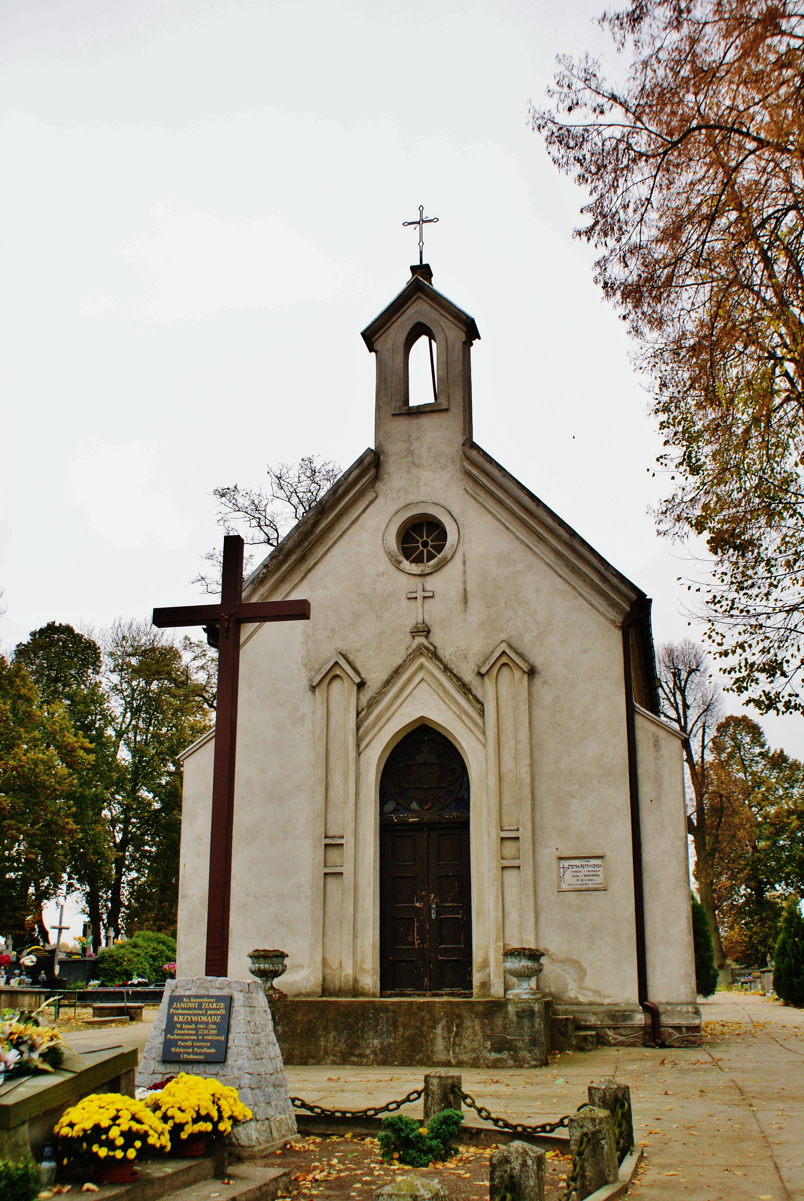 Czernicki, Modliński Mausoleum, parish cemetery, Krzywosądz, Kuyavian-Pomeranian Voivodeship, Poland. Present day cemetery chapel.